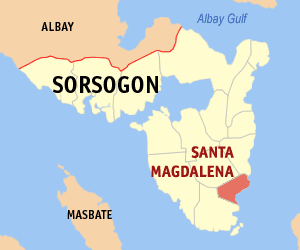 Map of Sorsogon showing the location of Santa Magdalena